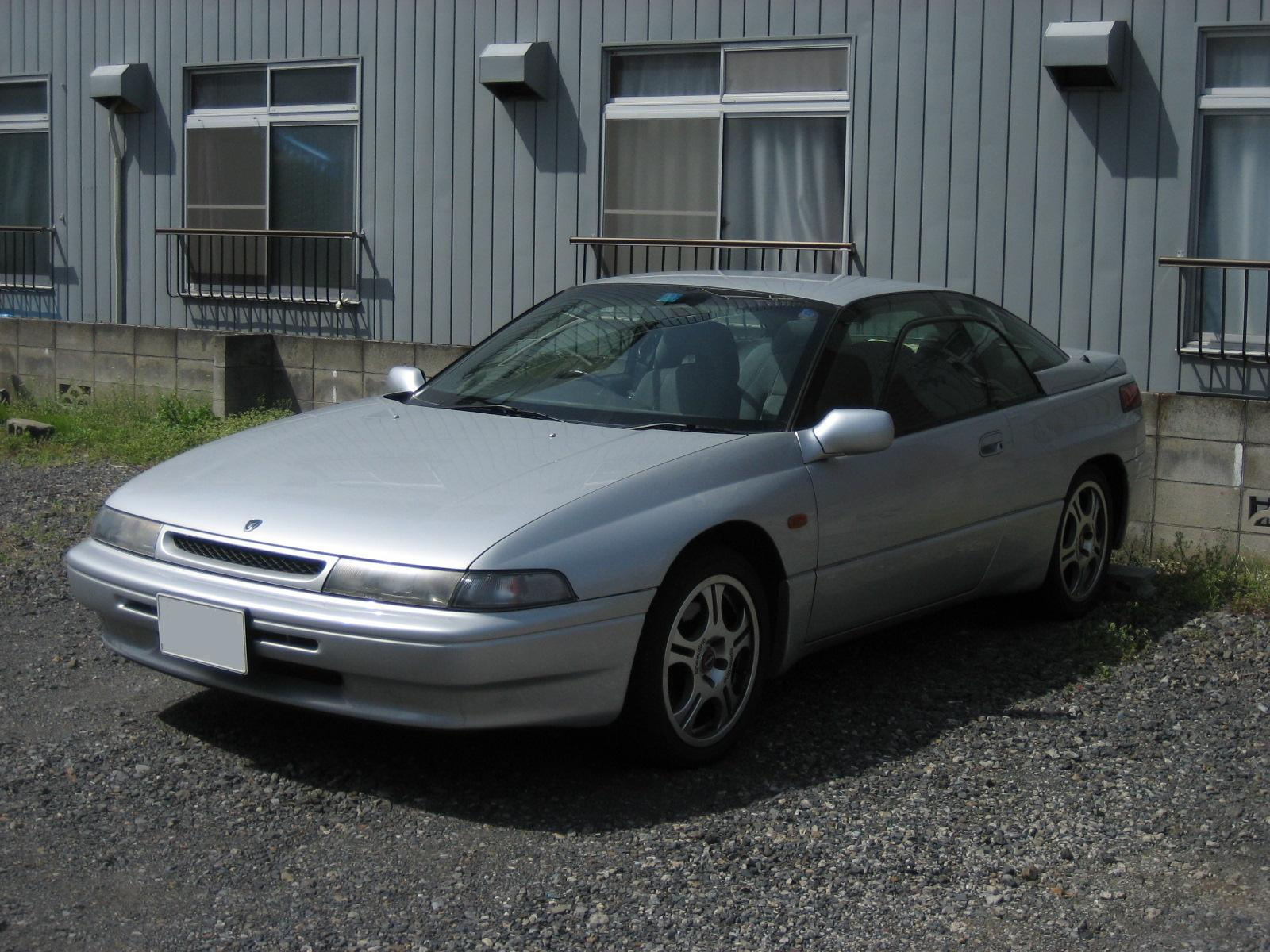 I photoed Subaru Alcyone Svx near the house.